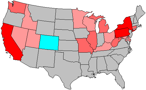 Summary of party change of U.S. house seats in the 1946 House election. Stripes indicate a tie between the gains of two or more parties. Legend: 6+ Democratic seat pickup 3-5 Democratic seat pickup 1-2 Democratic seat pickup 1-2 Republican seat pickup 3-5 Republican seat pickup 6+ Republican seat pickup Note: years ending in 2 may have inconsistent results due to redistricting.